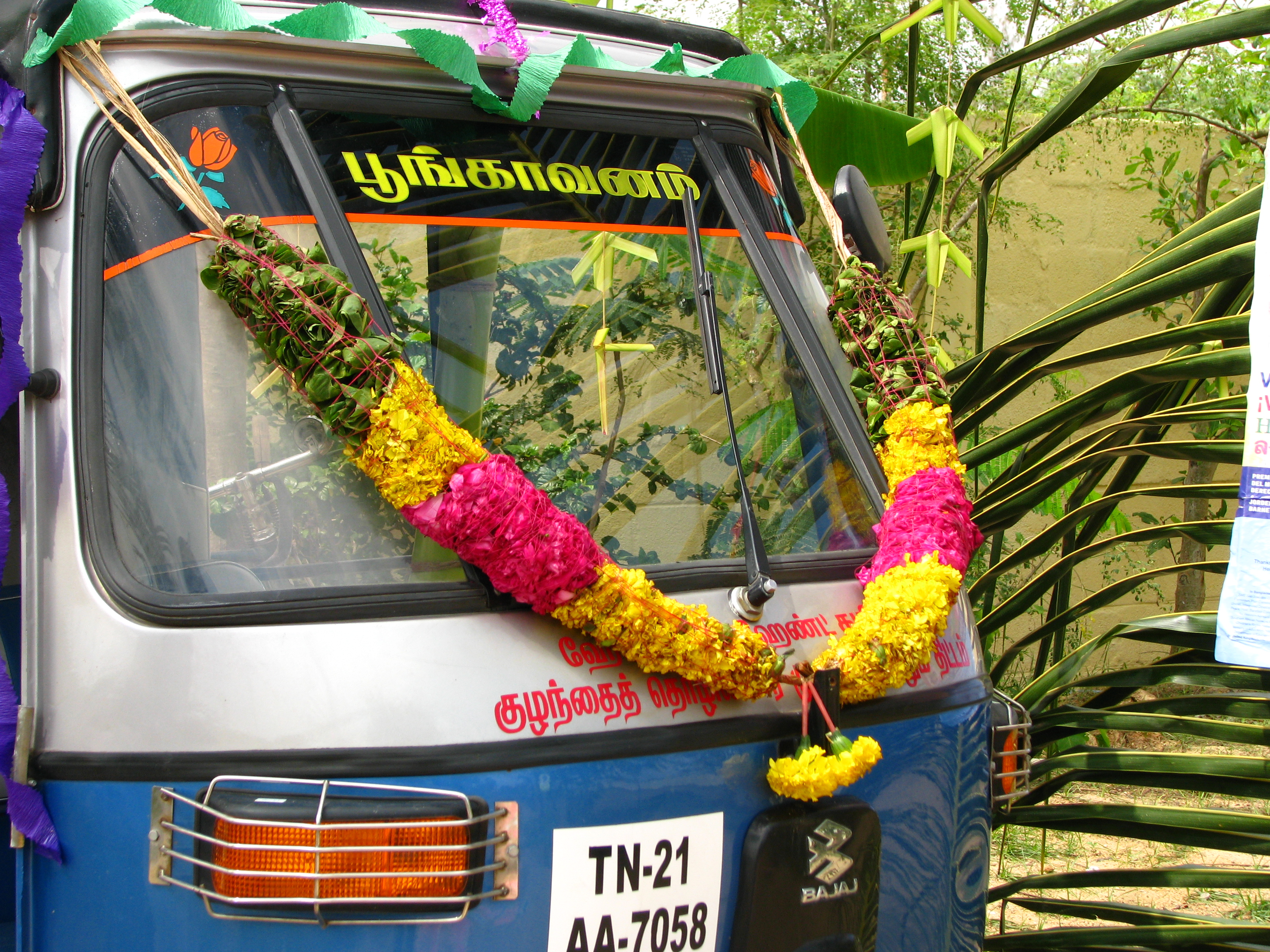 A typical auto-rickshaw, this one private (and therefore not the usual yellow-black), decorated for a festival. During festivals drivers are often seen take loving care of their vehicles, fancying them up with flower garlands, banana plant leaves, sugarcane stalks and paper streamers. All very bright, fresh and eye-catching.